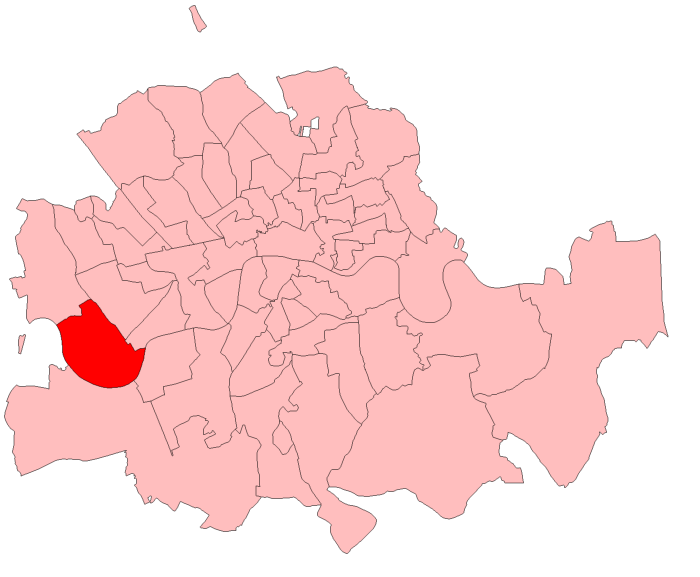 A map of Fulham constituency within the Metropolitan Board of Works area, as it existed from 1885 to 1918.